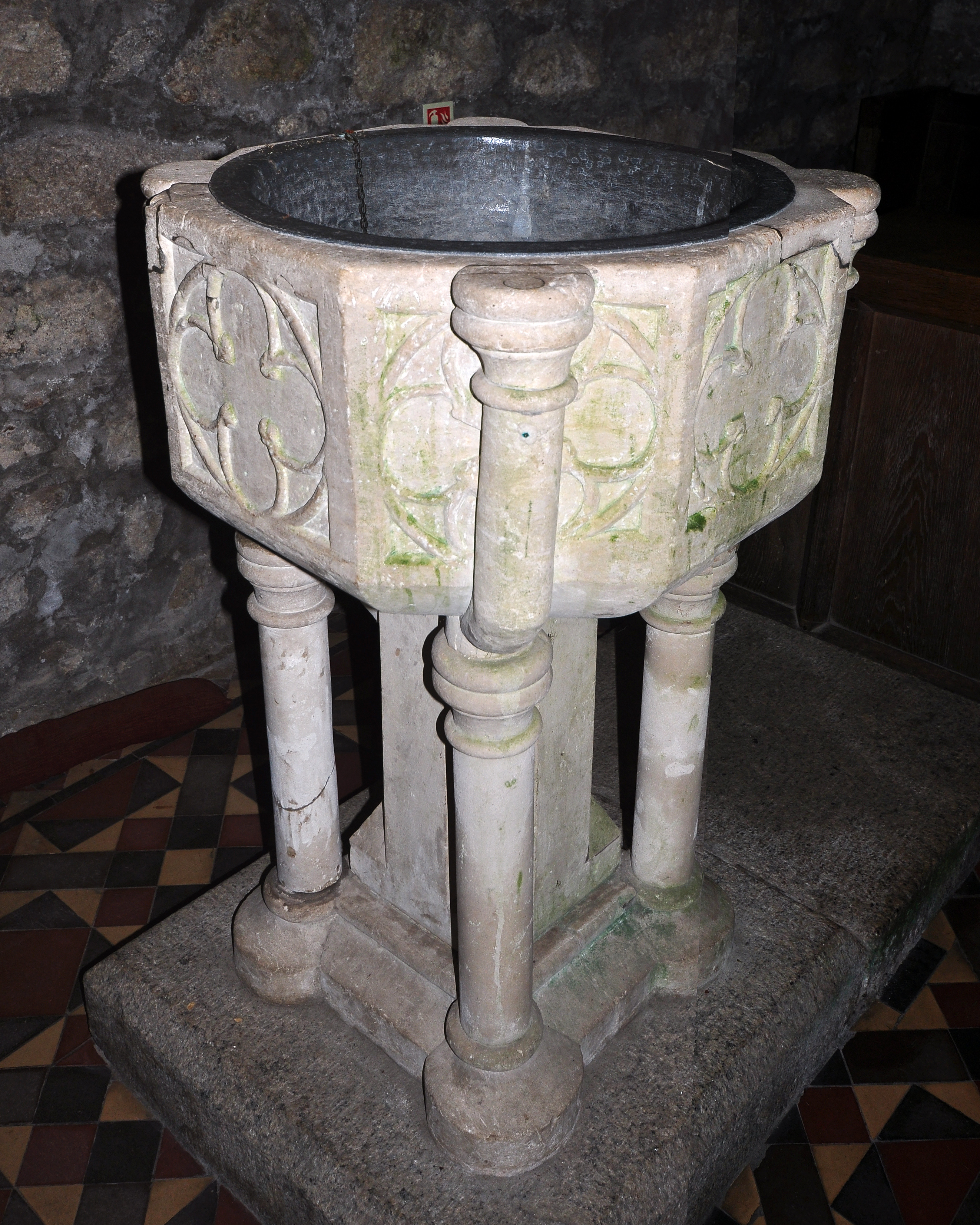 The font in the parish church in Zennor, Cornwall.